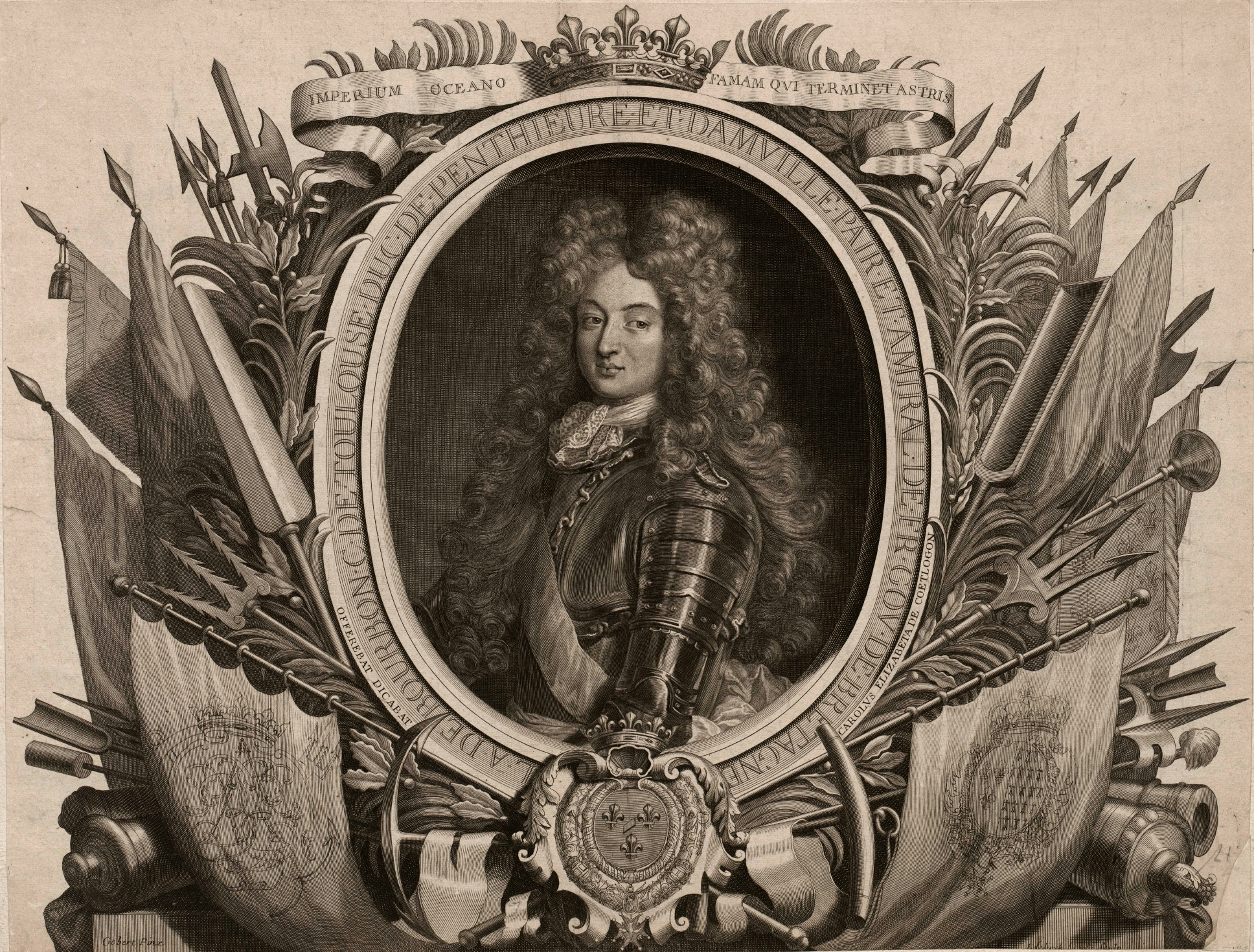 Louis Alexandre de Bourbon, Légitimé de France, Count of Toulouse, depicted as Grand Admiral of France, engraving after an original painting, now lost, by Pierre Gobert